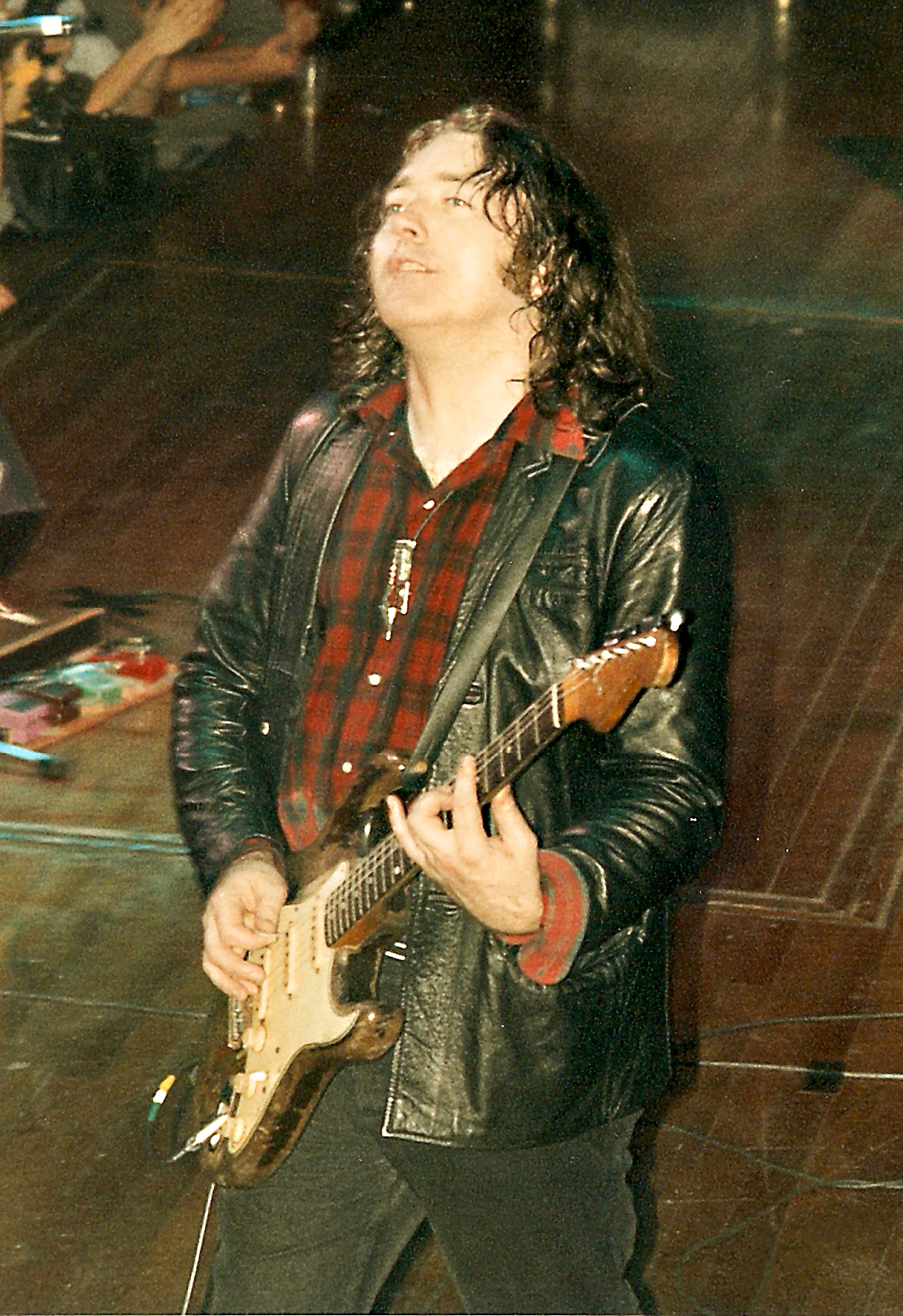 I made the picture from Rory Gallagher on 10-11-87 in a concert hall called Vredenburg in Utrecht, Holland.